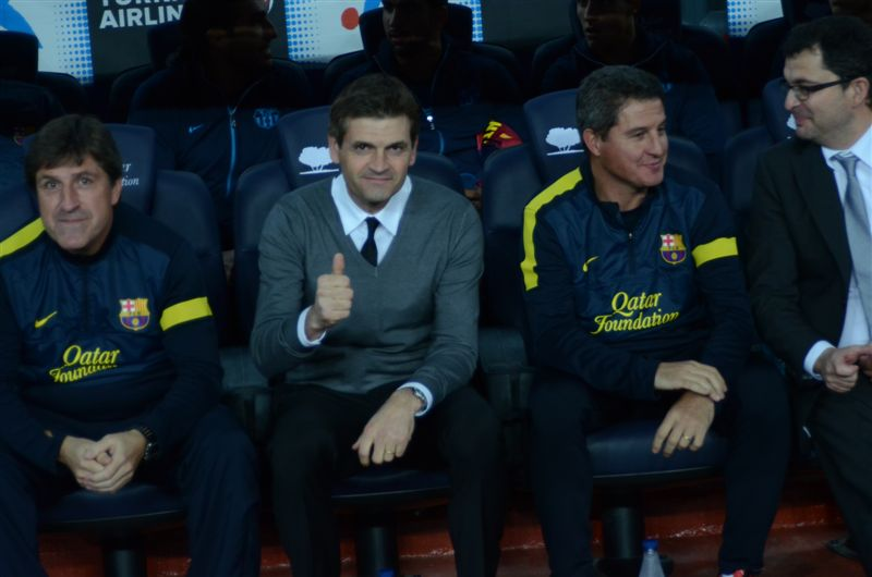 Tito Vilanova, FC Barcelona coach, just before the match between FC Barcelona and Celta de Vigo. He is seated between Jordi Roura and Aureli Altimira.